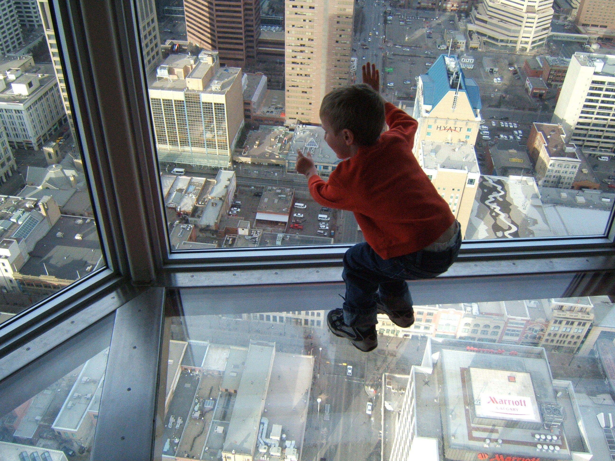 This glass floor is 530' above the streets of Calgary. He didn't seem to mind...